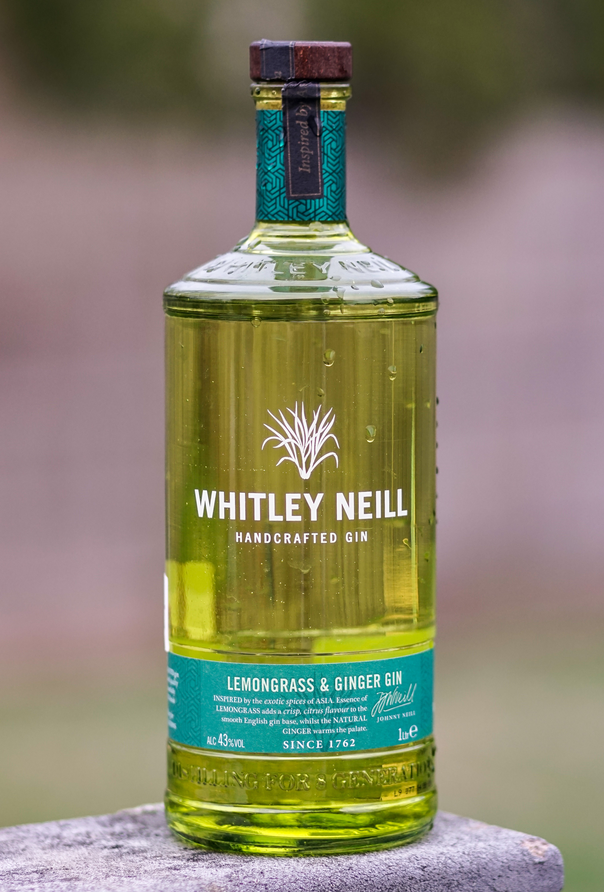 A bottle of Whitley Neill Gin, Lemongrass and Ginger variety.